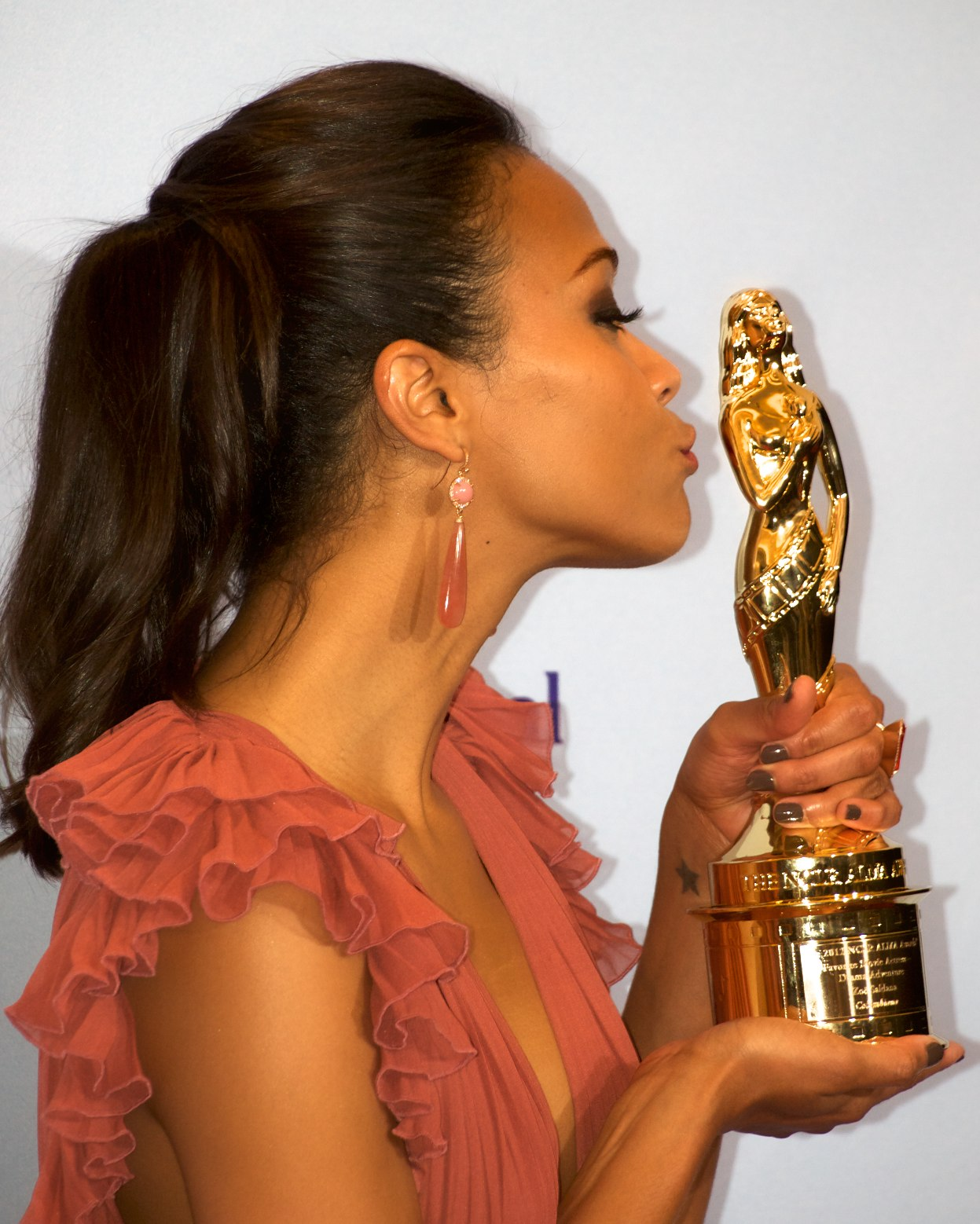 Alma Awards 2012